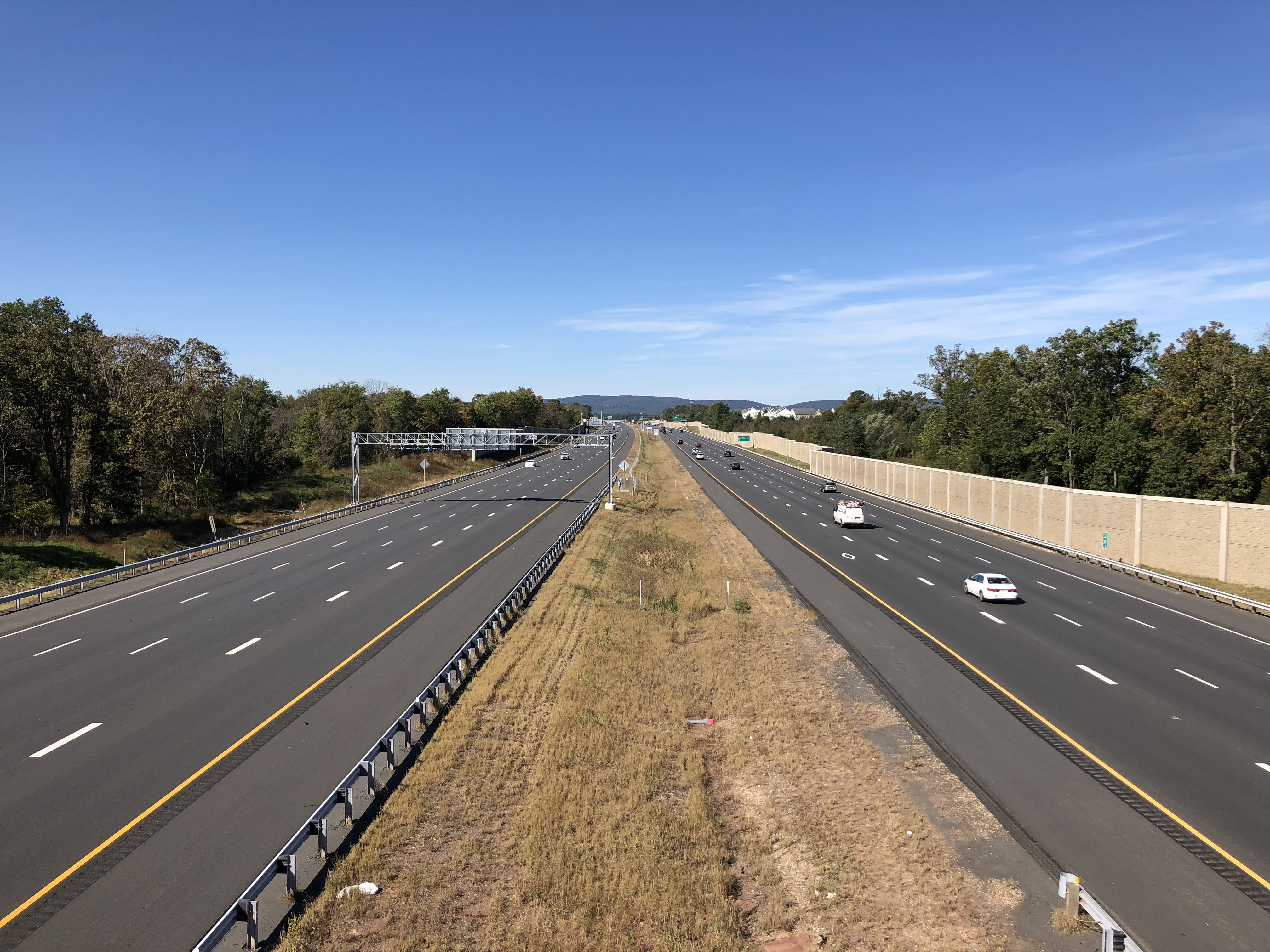 View west along Interstate 66 from the overpass for Catharpin Road (Virginia State Route 676) in Gainesville, Prince William County, Virginia